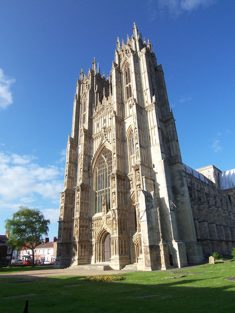 West Front of Beverley Minster, Beverley, East Riding of Yorkshire, England.Photo taken from St. John Street and a similar picture to 795962 but without any attempt at perspective correction. I prefer this version.